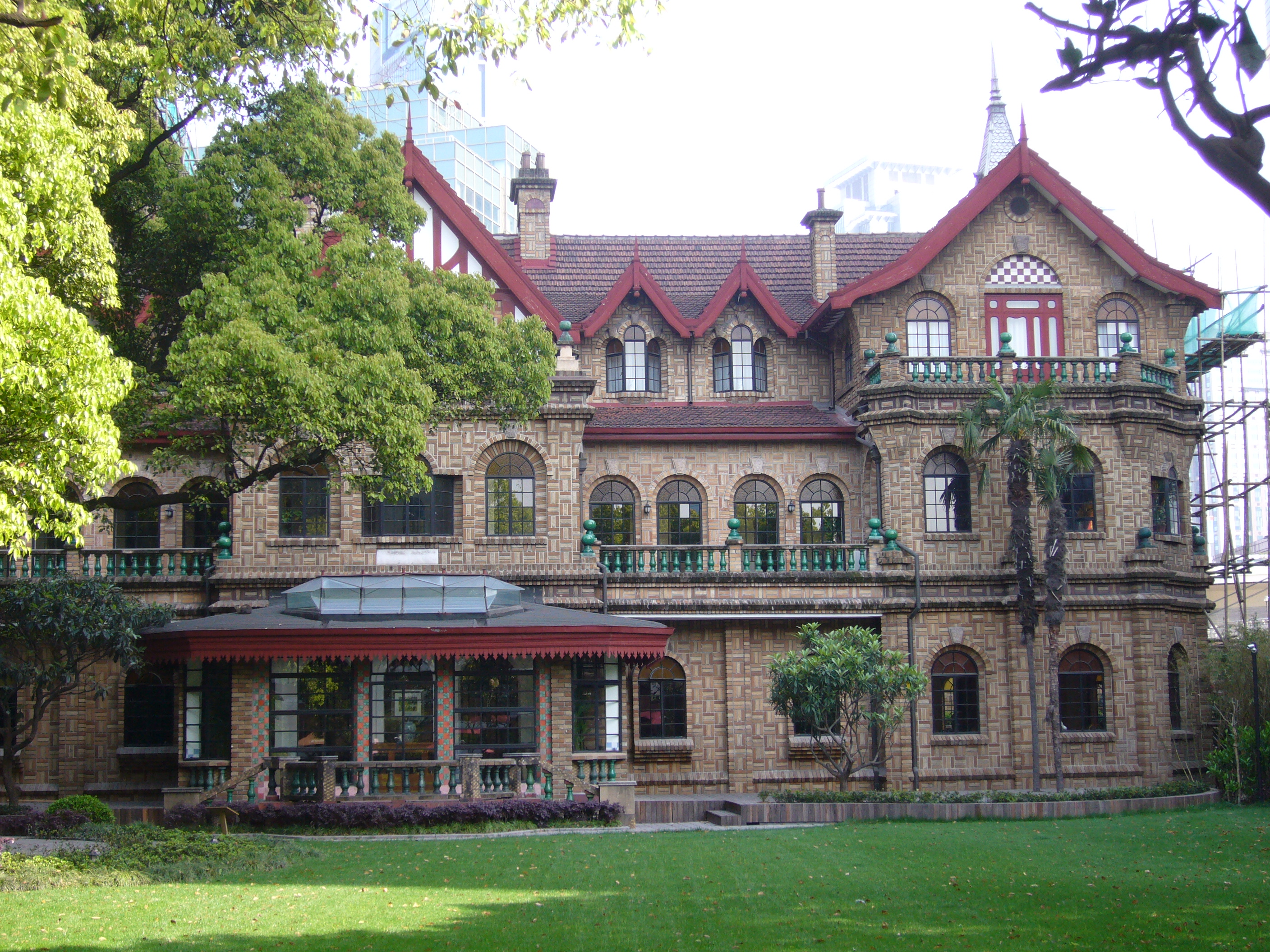 Moller Villa in Shanghail